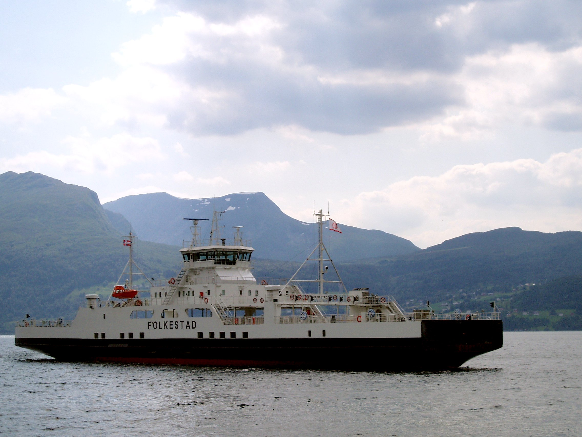 MF Folkestad. The ferry from Folkestad to Volda in Norway. Incidentally, the ferry is also called Folkestad.